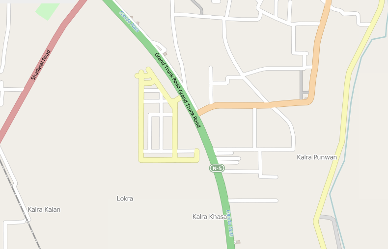 Kalra Kalan, Lokra, Kalra Khasa, Kalra Punwan on map